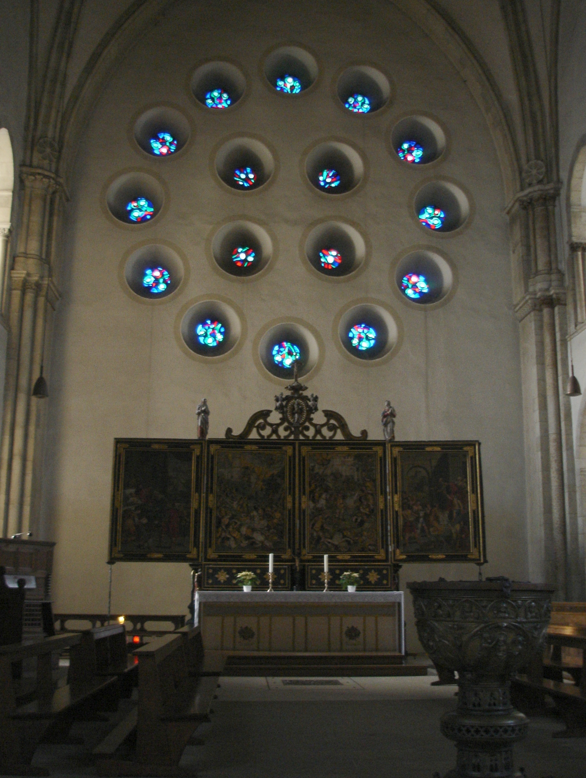 Inside the "Westwerk" (west-portal) of the cathedral of Münster, Westphalia, Germany